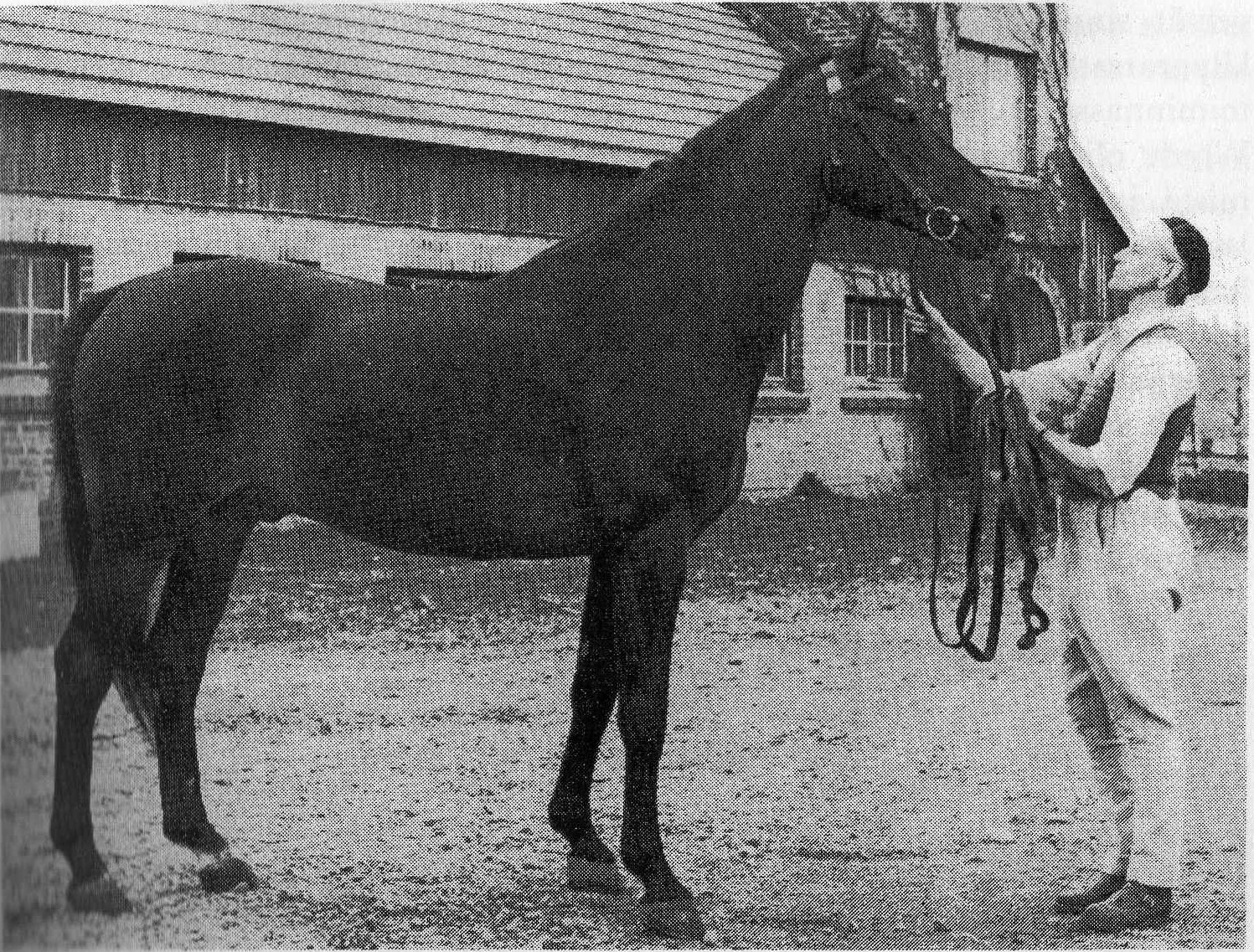 Baroness Eva Wrede with her warmblood stallion Hampus (Finnish studbook number 8).